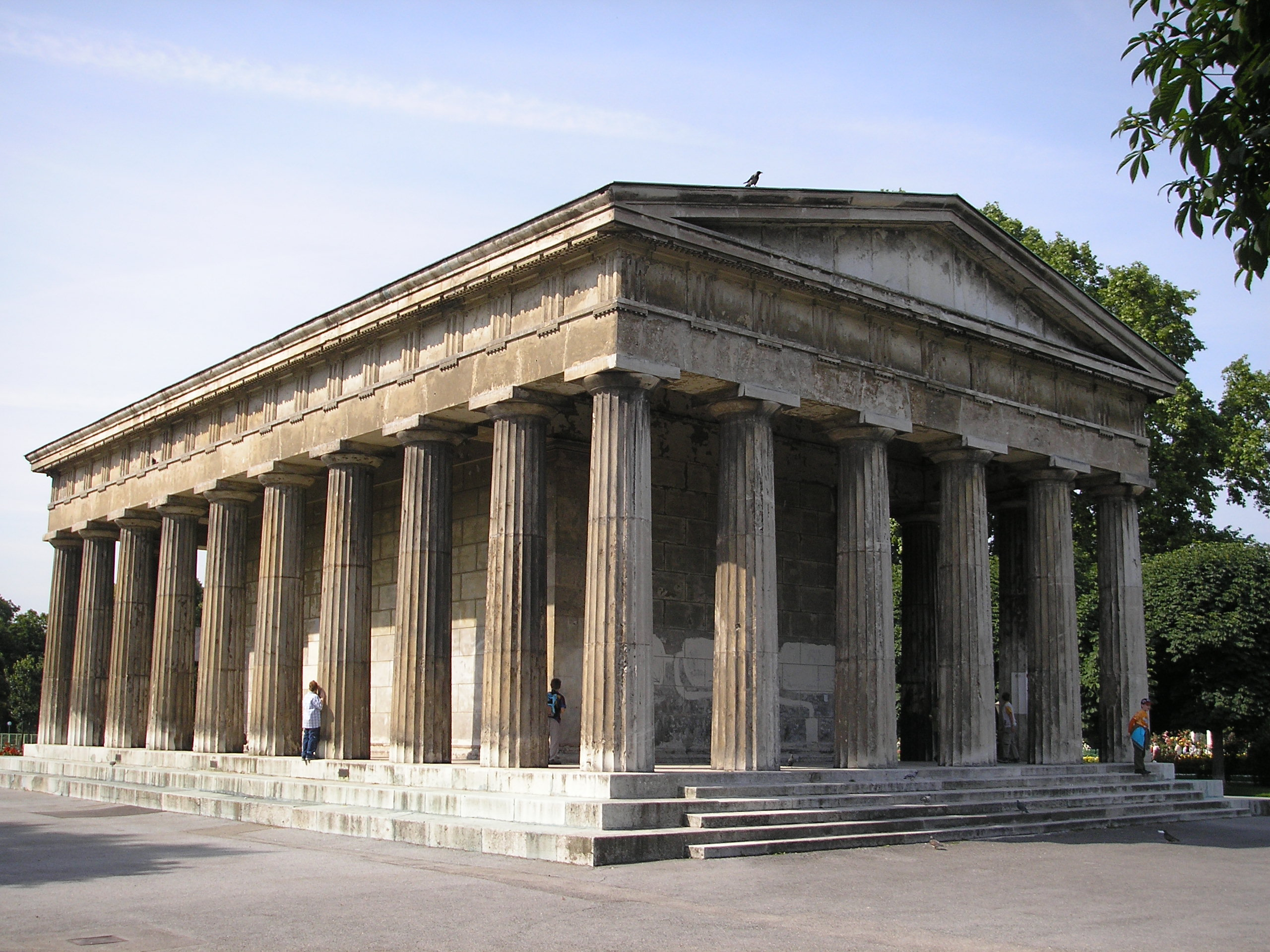 The Theseustempel in the Volksgarten, Vienna. Constructed by Peter von Nobile from 1819 - 1823.